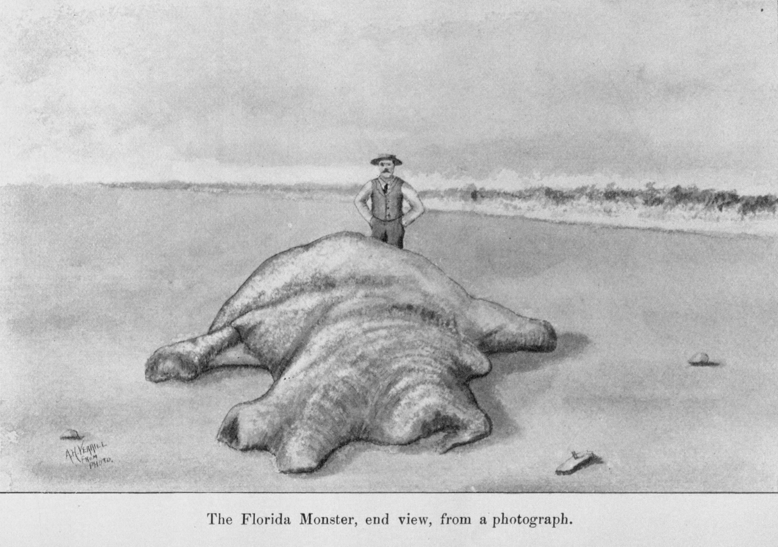 St. Augustine "sea monster" of 1896, drawn by Addison Emery Verrill from a photograph